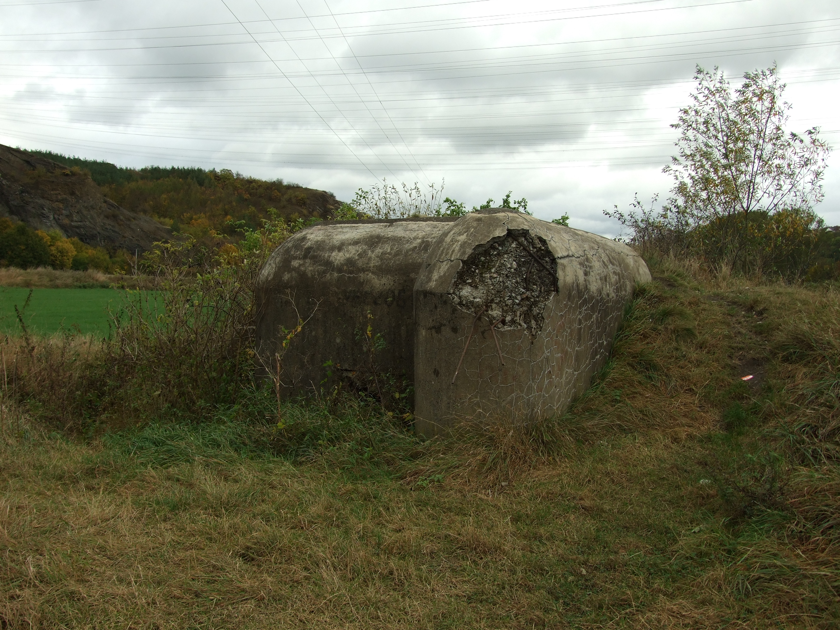 WWII Czechoslovak fortification near Prague between the town of Beroun and village of Srbsko. Central Bohemian Region, CZhelp